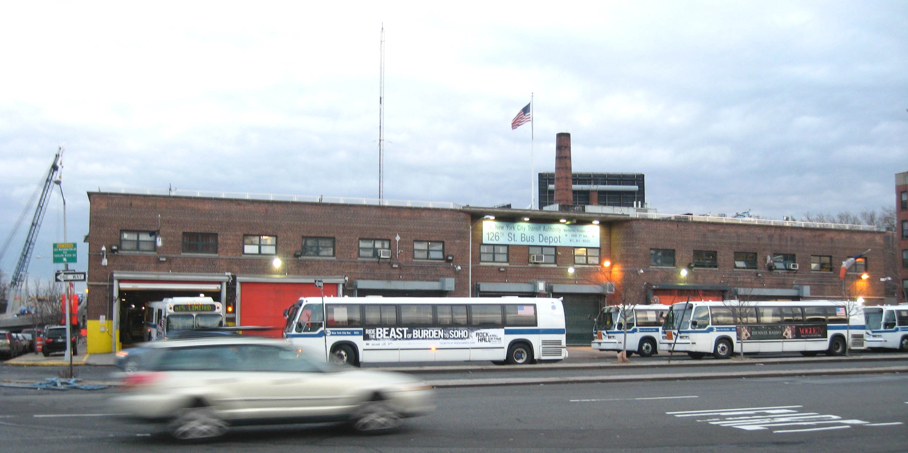 Looking southeast across Second Avenue at 126th Street Bus Depot on a cloudy dusk.